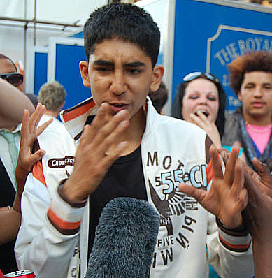 Dev Patel On The Stage in Skins Party 2007.